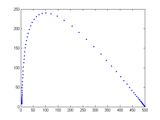 An epidemiological graph for the SIR model. Statespace for S,I. S represents the number of susceptibles, I the number of infectious people. Maximum at S = v/beta = 0.1/0.001 = 100 Graph generated using MATLAB code